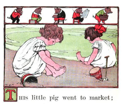 Girls playing "This Little Pig".